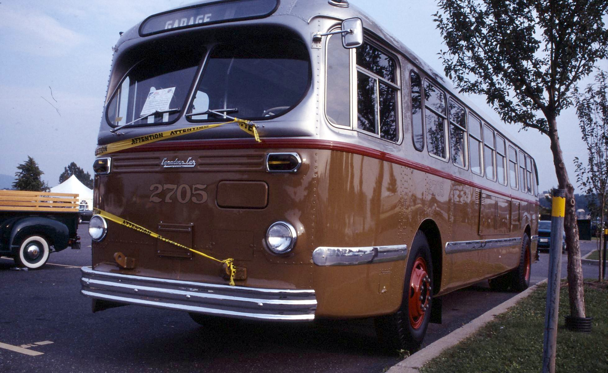 A restored 1952 Canadian Car Brill, ex-Montreal Transit Commission bus